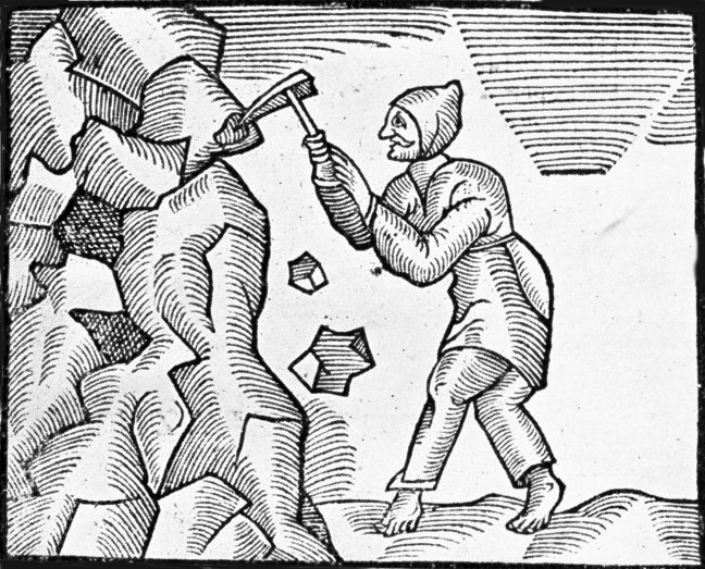 "Officina ferraria abo huta i warstat z kuźniami szlachetnego dzieła żelaznego przez Walentego Roździeńskiego teraz nowo wydana", Kraków 1612, S. Kempini